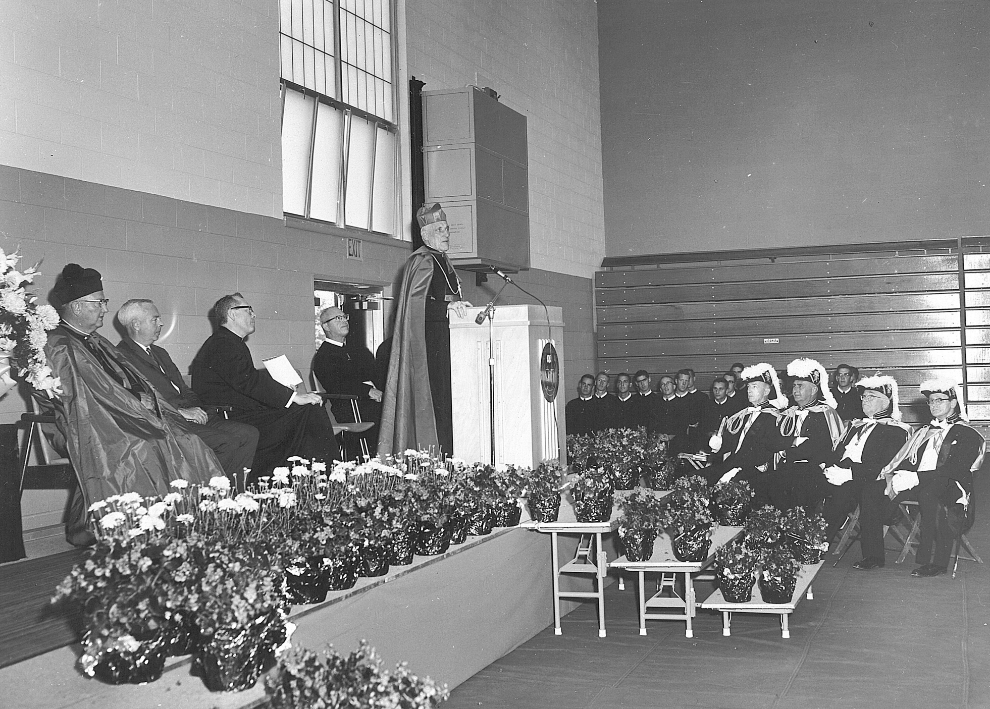 Cardinal Richard Cushing at the Dedication of the Xaverian Brothers High School in 1963